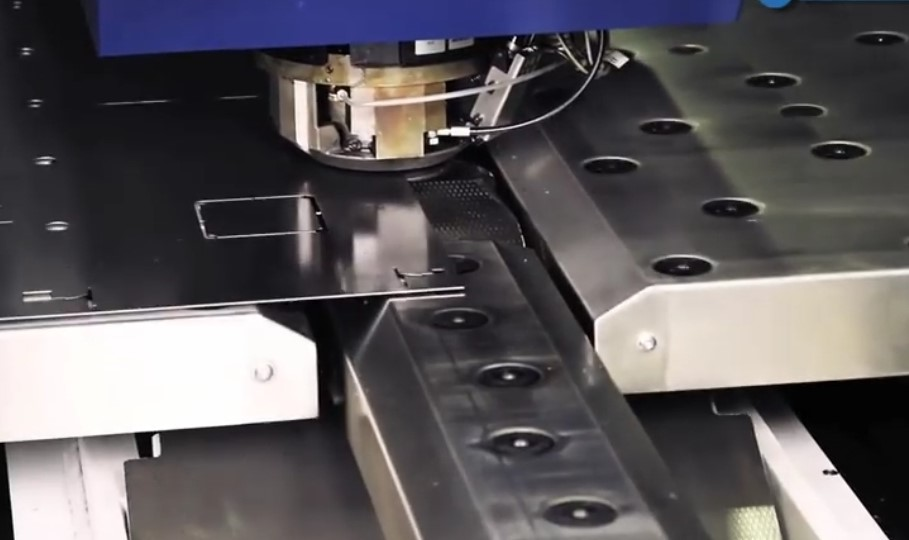 CNC PUNCHING MACHINE